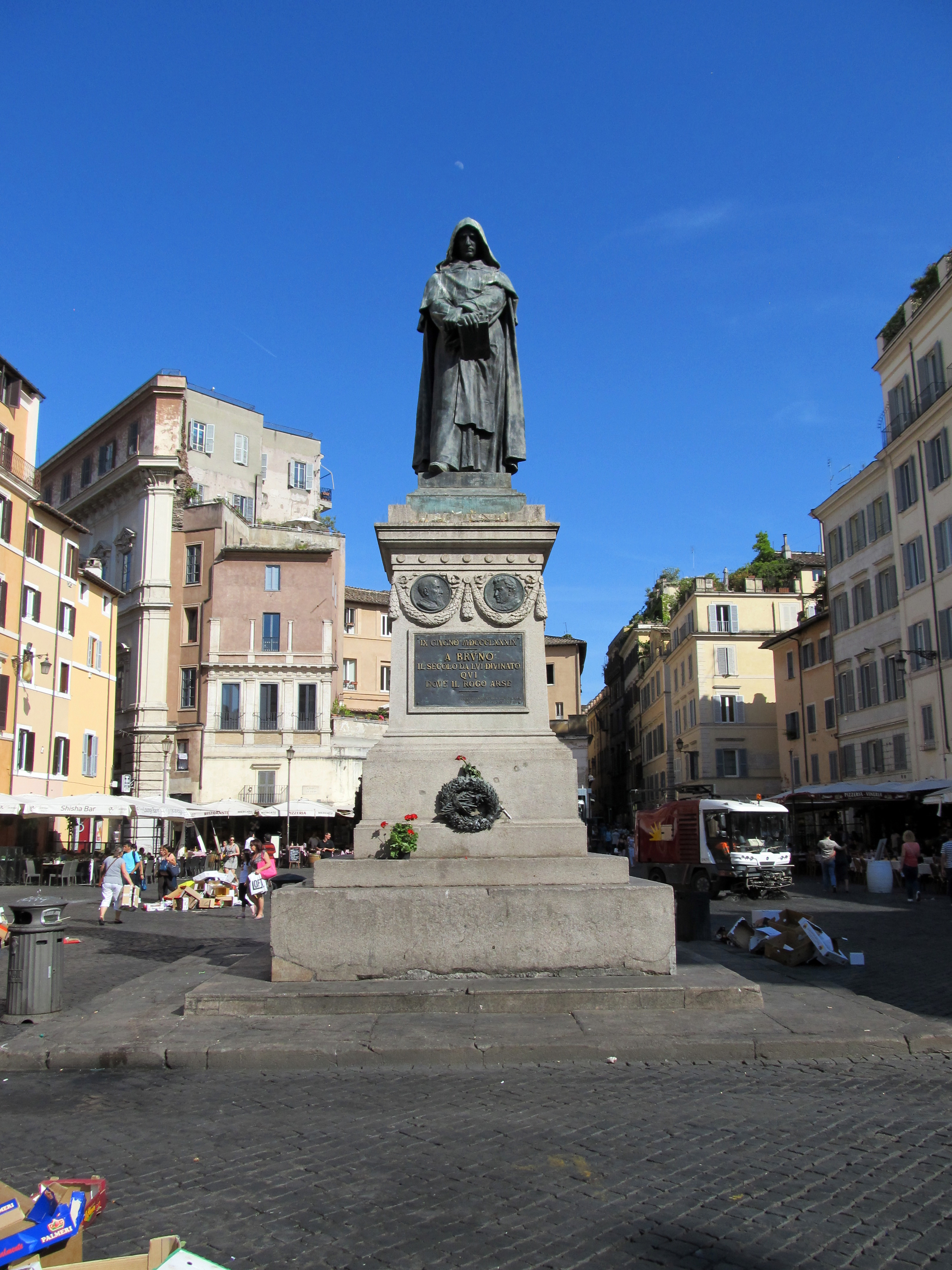 This statue is the centrepiece of Campo de' Fiori (Field of Flowers), a major public square south of Piazza Navona. Giordano Bruno was a Dominican friar who was convicted of heresy and burned at the stake in this place. He had rejected key Catholic doctrines, believed in a heliocentric solar system and correctly proposed that the Sun was a star moving through space. He was later viewed as a martyr for science and free thought.